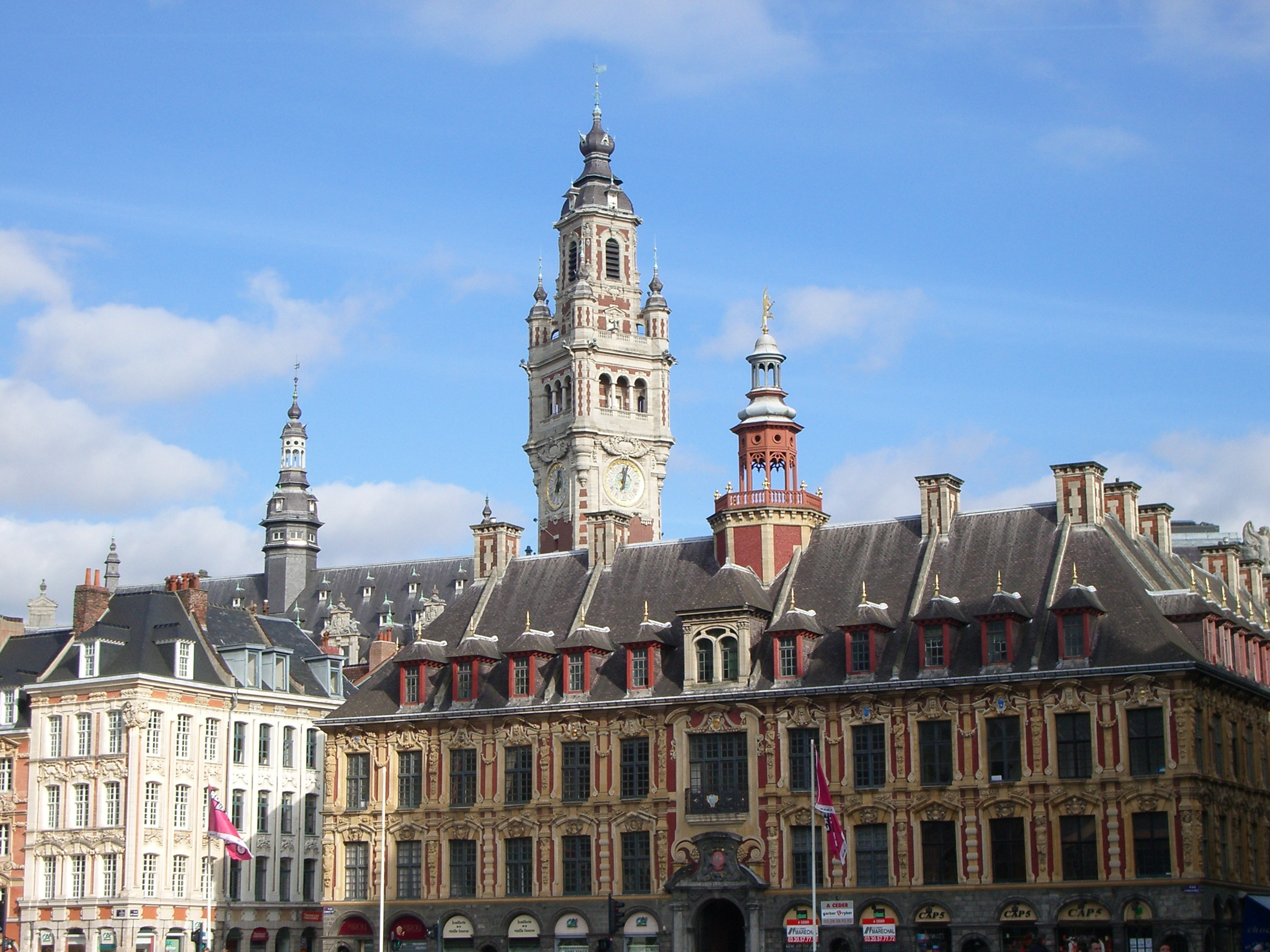 Old exchange and Grande Place in Lille, Nord, France